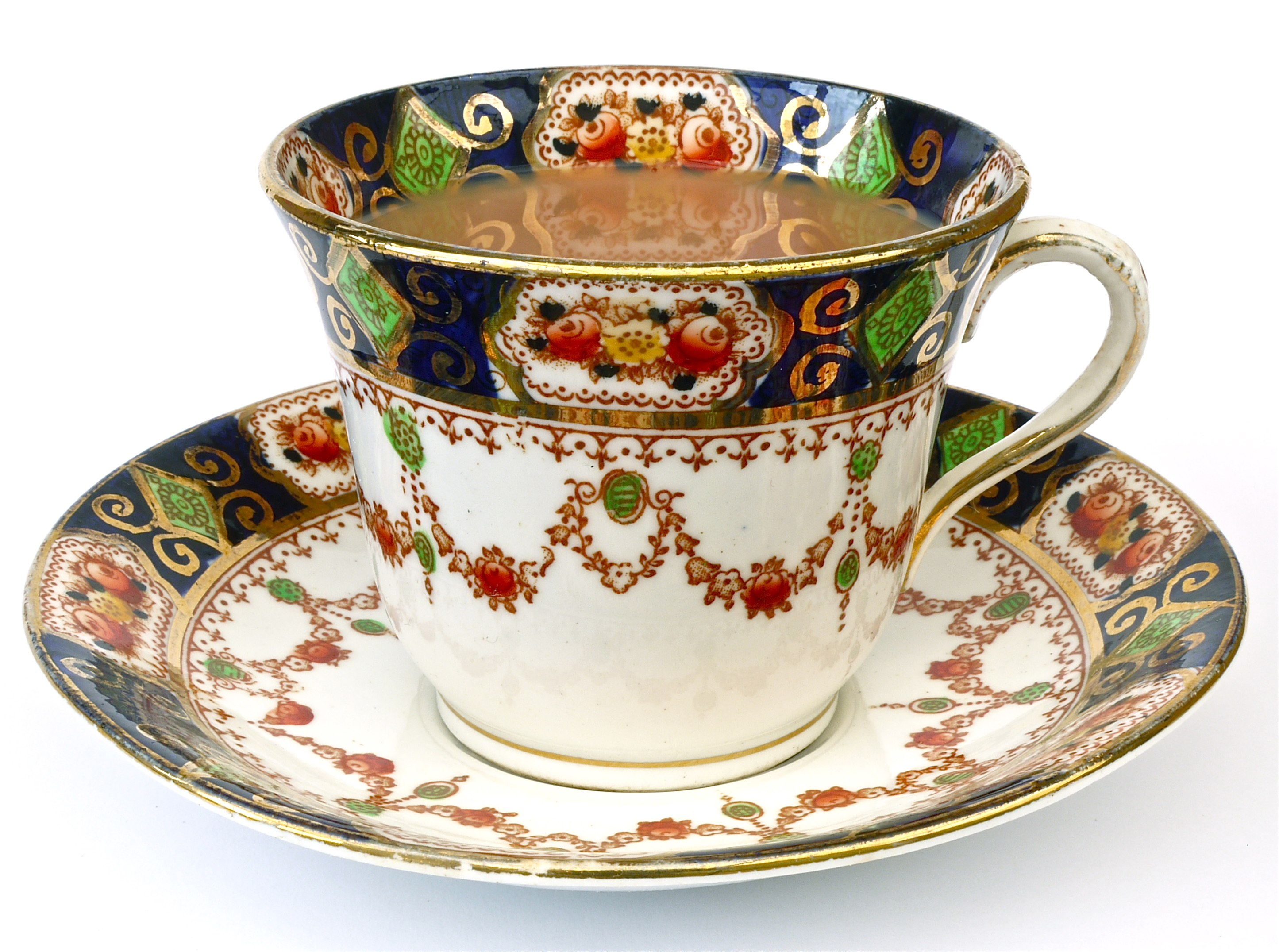 Demitasse